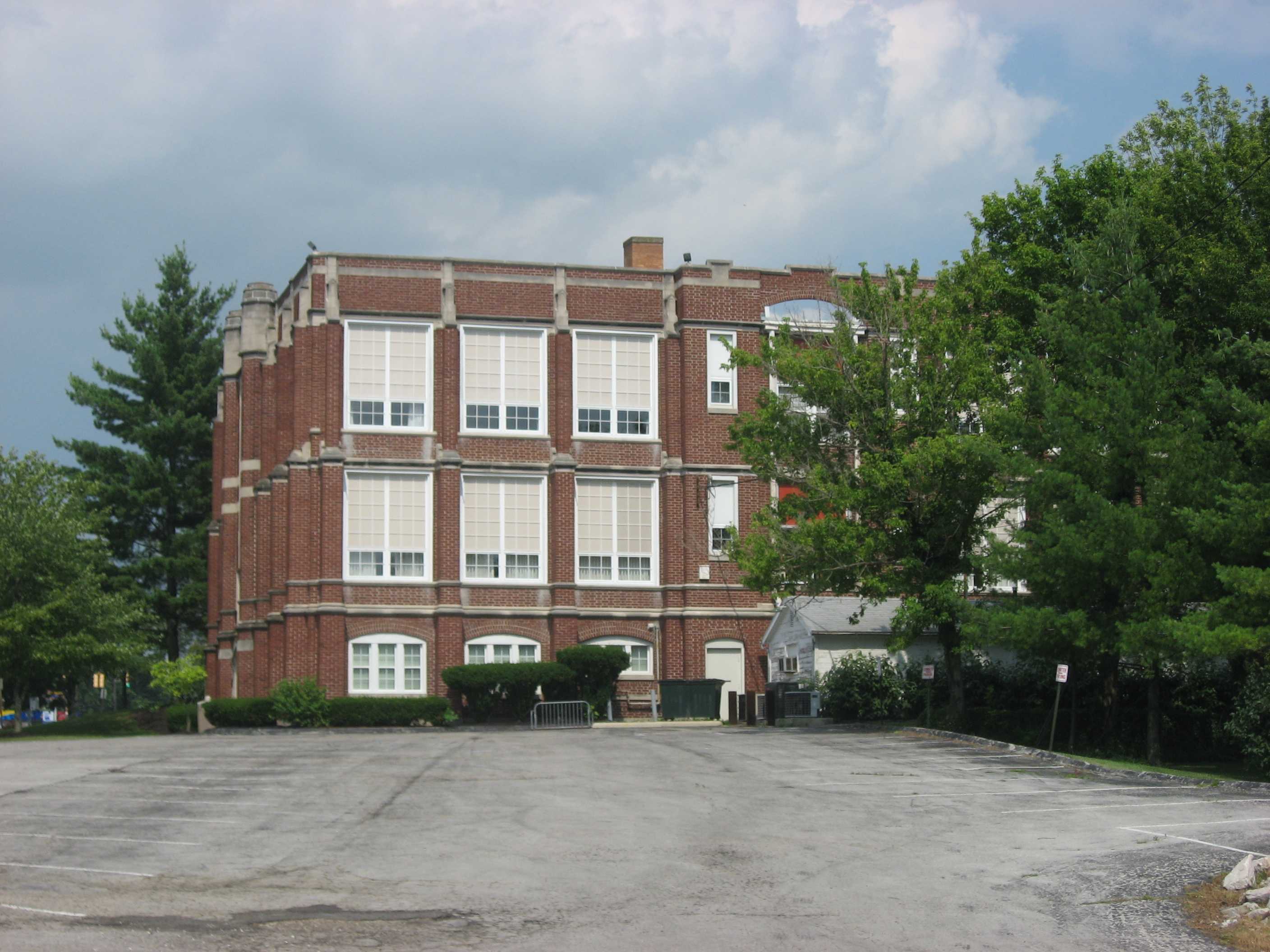 Rear of the Aigler Alumni Building, located at 315 E. Market Street (State Routes 18 and 101) on the campus of Heidelberg University in Tiffin, Ohio, United States. Built in 1912, it is listed on the National Register of Historic Places.